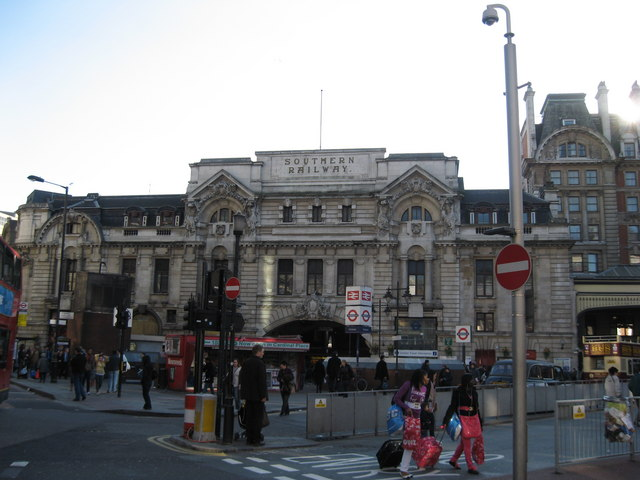 Victoria Station London, Southern Railway Building